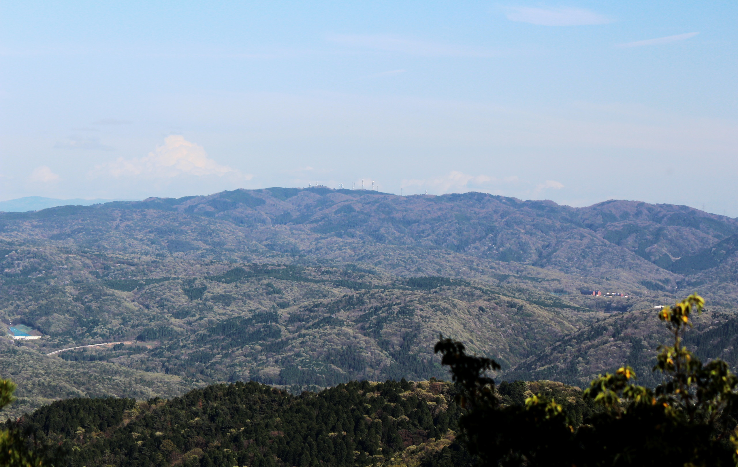 Mount Mikuni from Mount Miroku